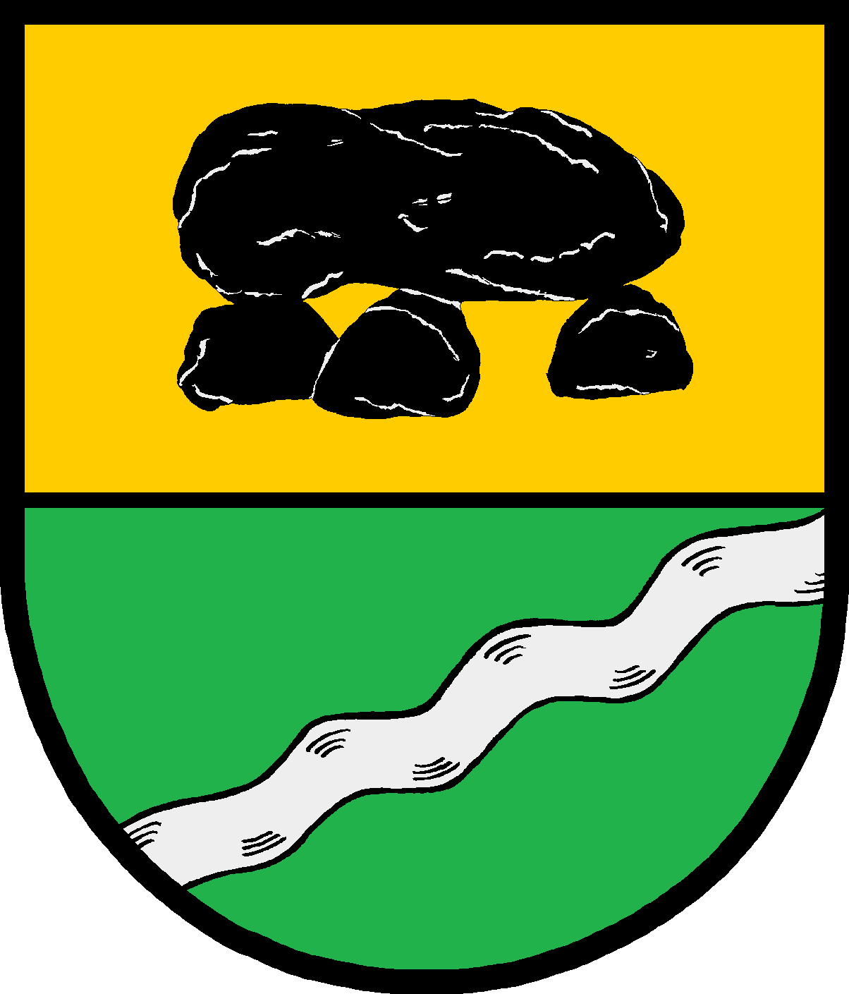 Coat of arms of the municipality Oldersbek in Schleswig-Holstein, Germany